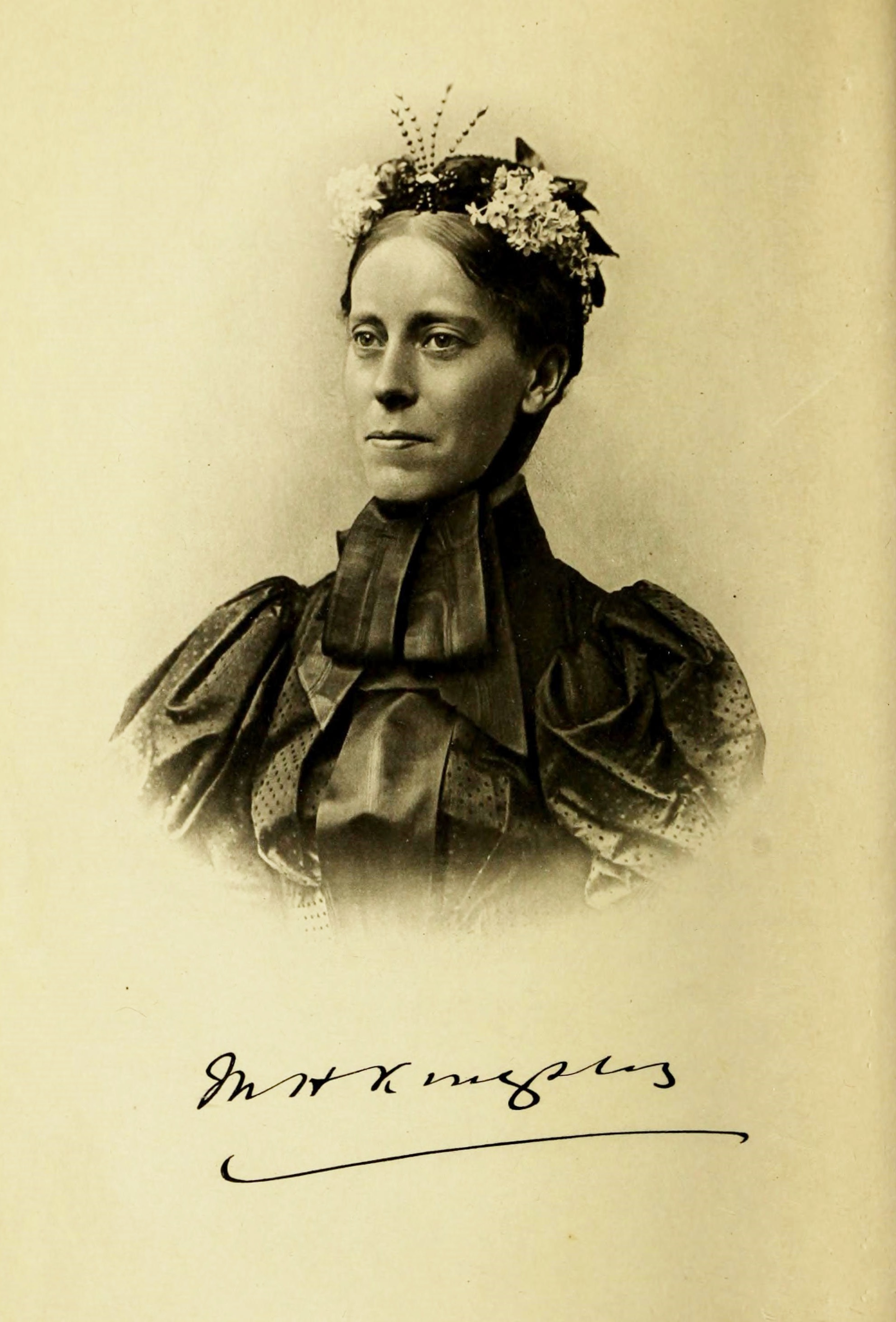 Mary Kingsley